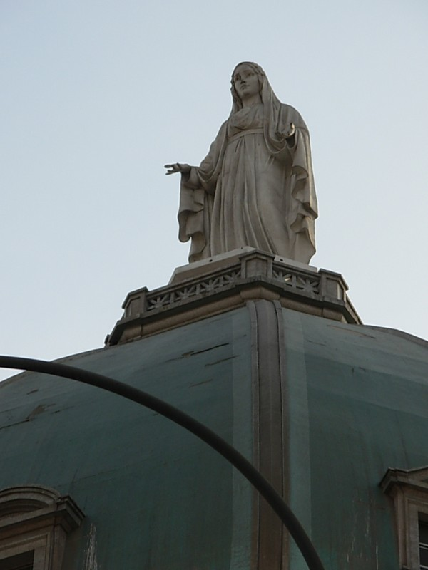 Fotografia de la Virgen Maria, Escultura Monumental del artista Plastico Fredy Luque Sonco